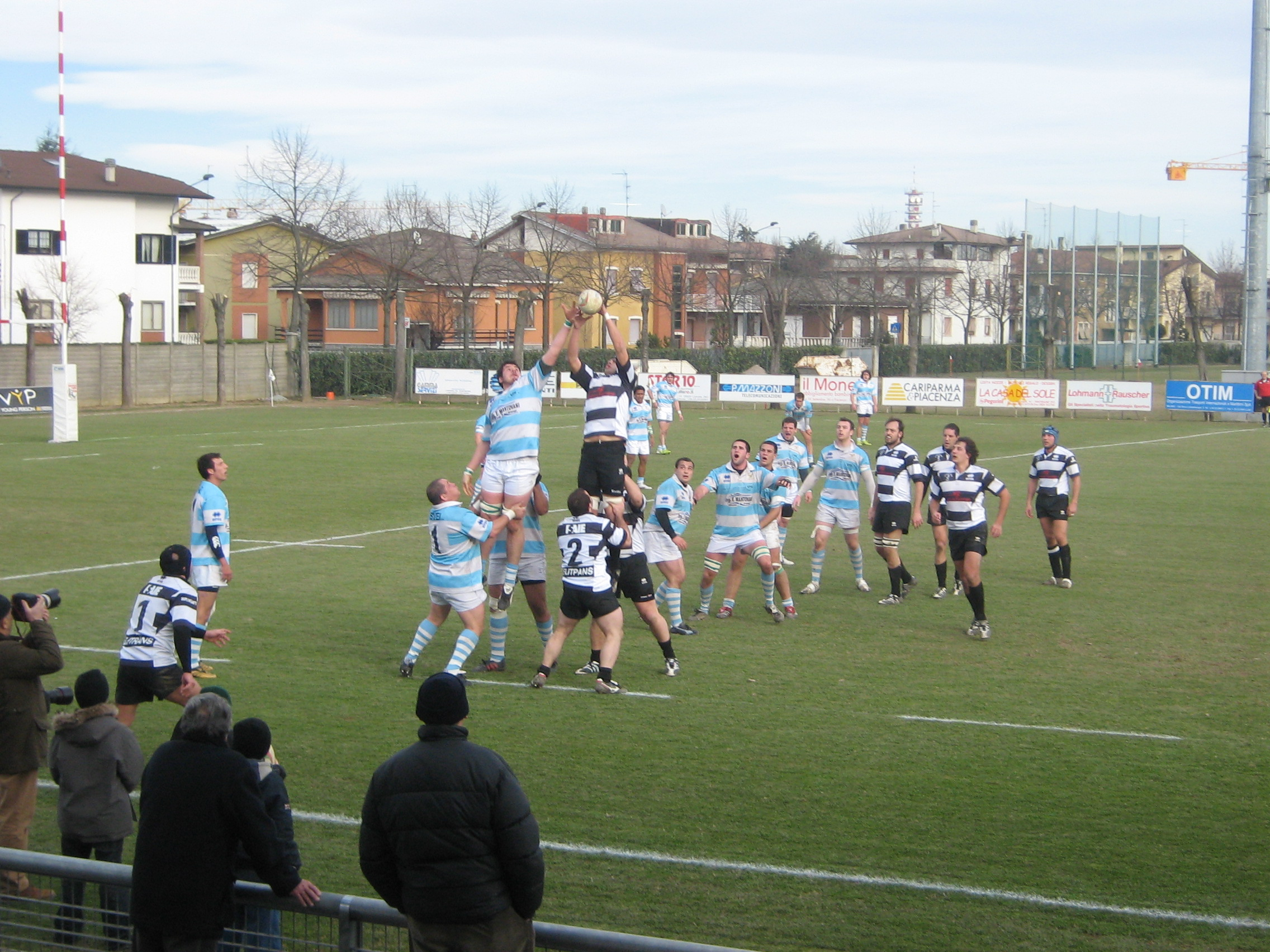 Rugby match Lyons vs Lazio